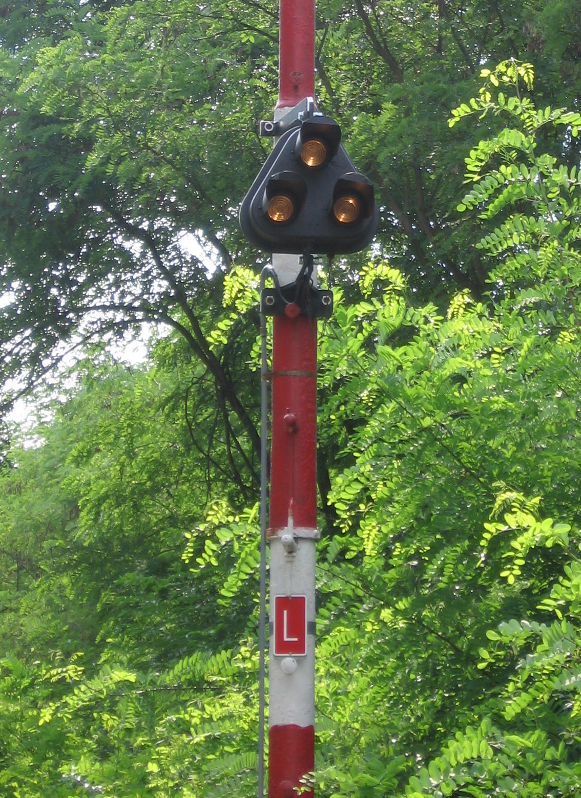 Subsidiary signal used by ČSD on semaphores. Praha Jinonice from Smíchov.